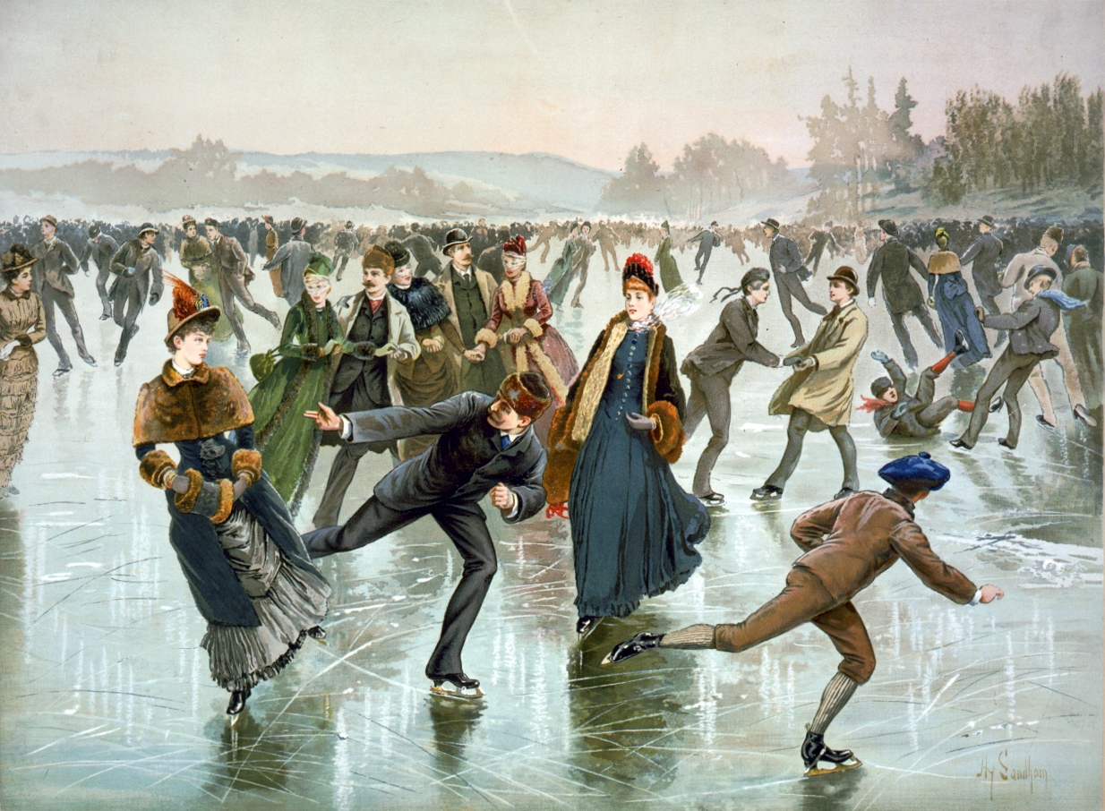 Skating. Chromolithograph print shows a crowd of people ice skating.